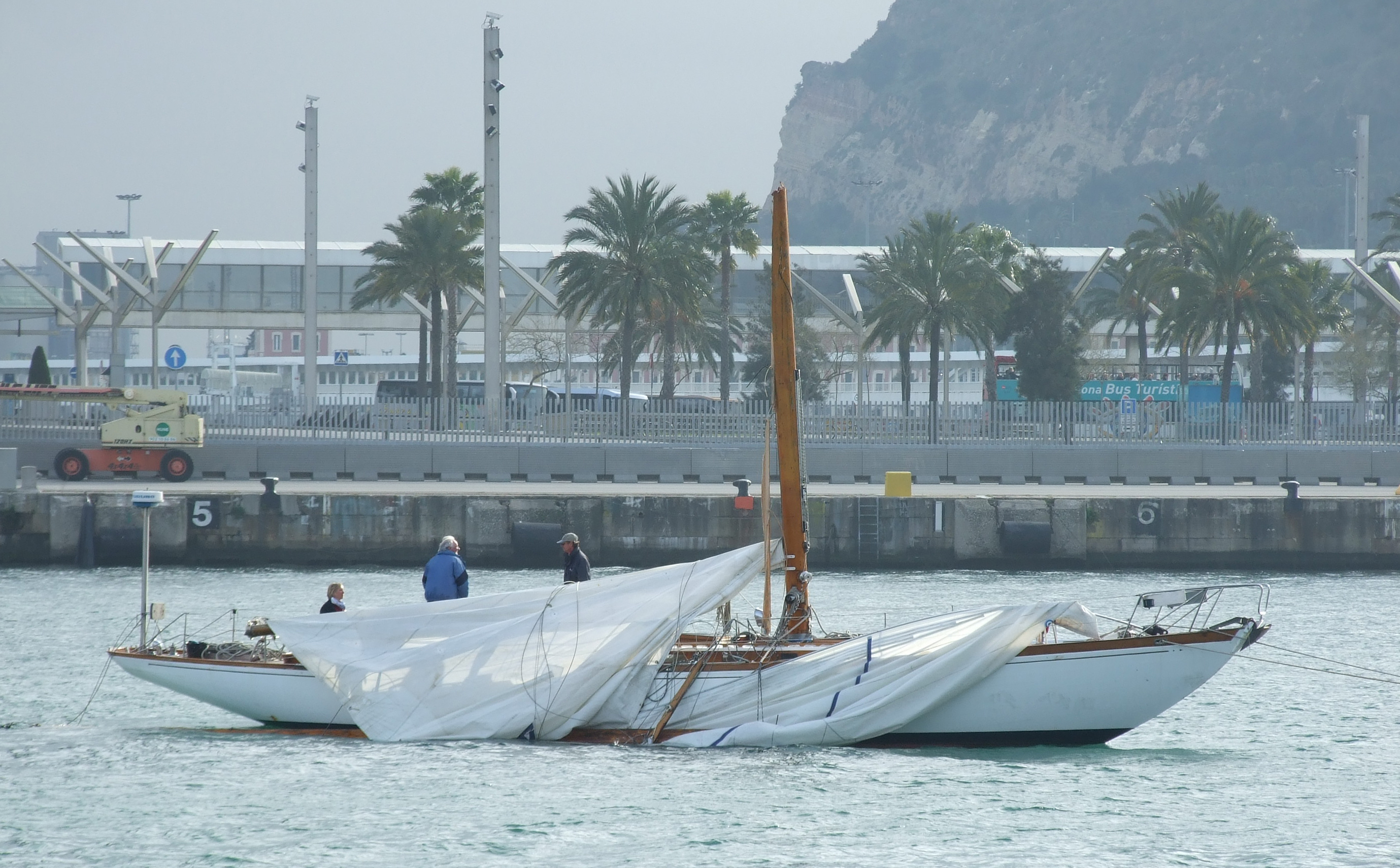 broken mast at a sailship in Barcelona